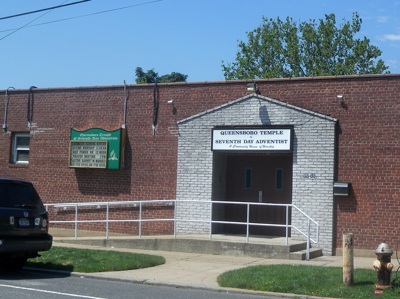 Looking southwest across 222nd Street on a sunny late morning.